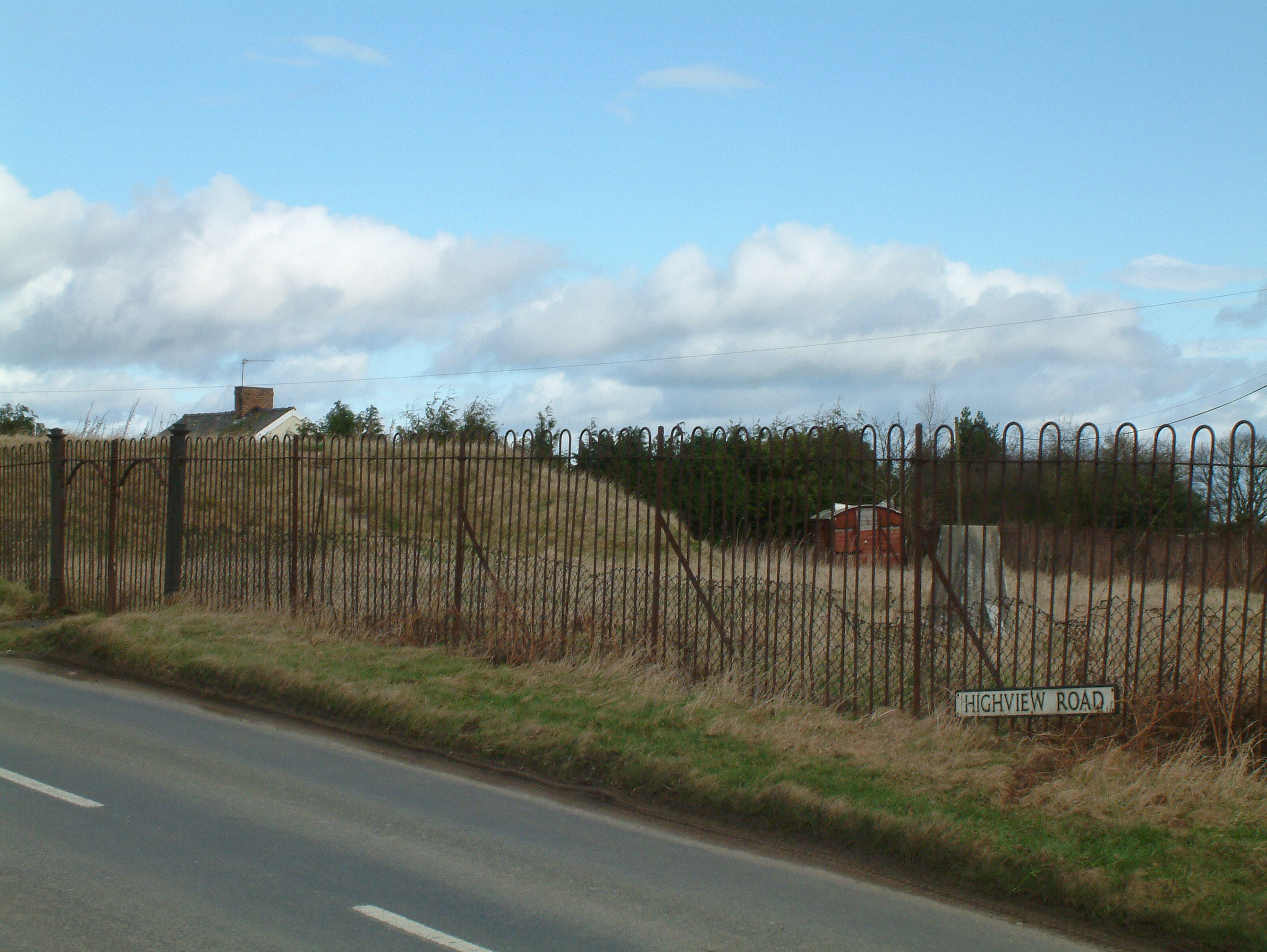 The covered reservoir and trig point on top of Ruardean Hill. Photograph by Stephen Dawson, 12 February 2005.